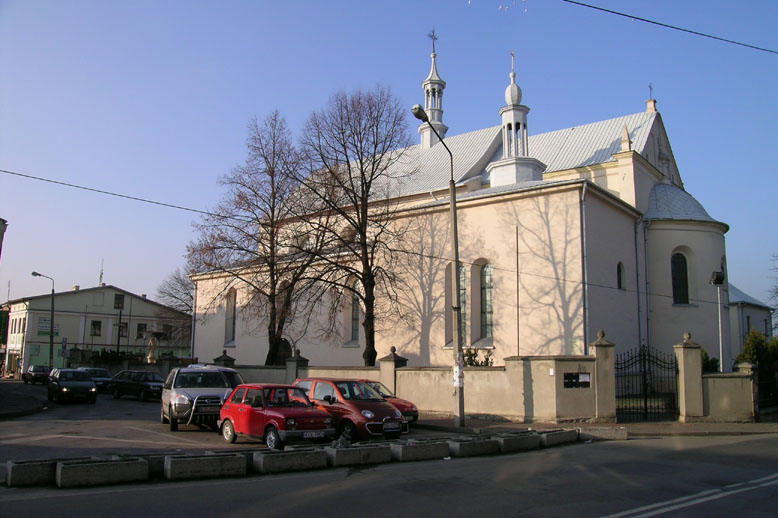 Church of St. Catherine of Alexandria in Wolbrom.